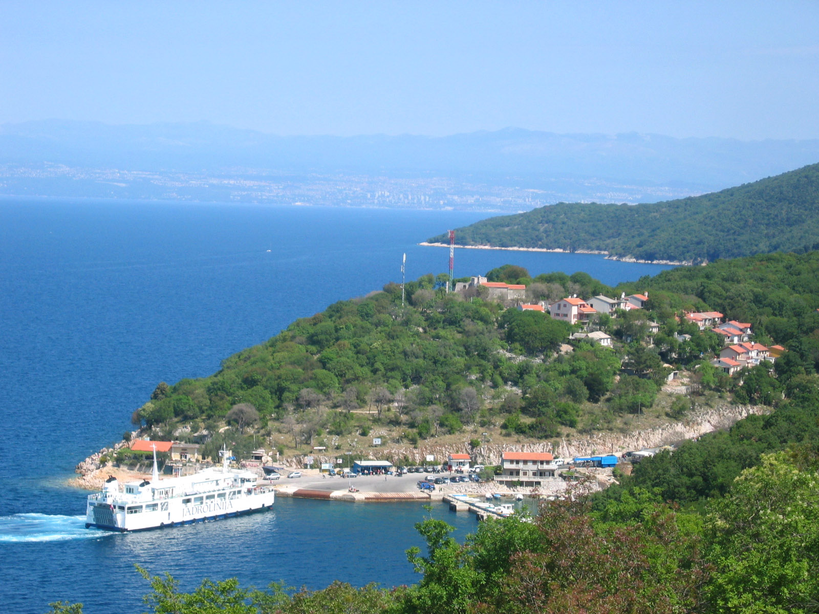 Porozina, village on island Cres, Croatia (ferry harbor)